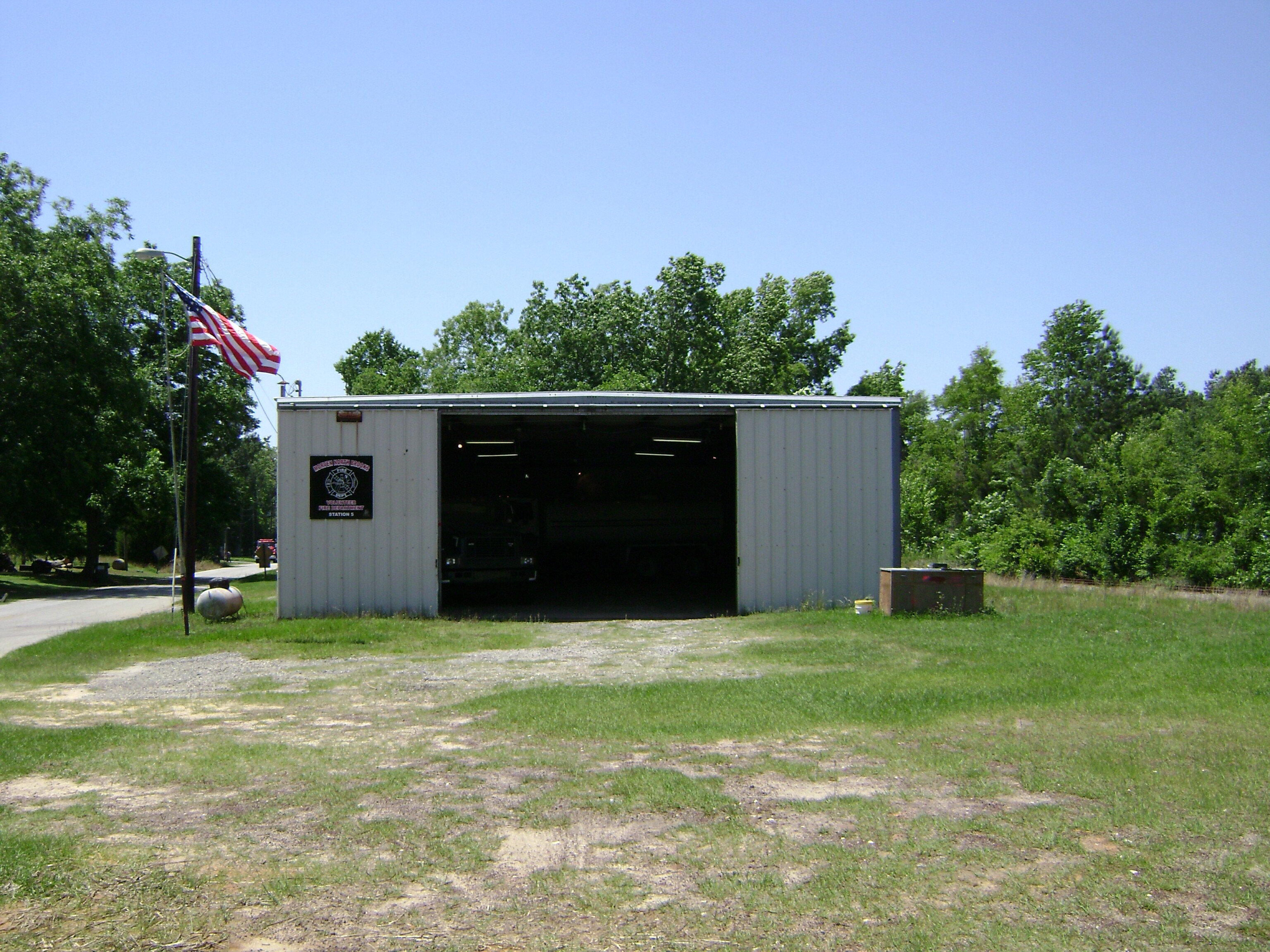 Morven Volunteer Fire Department in Morven, Brooks County, Georgia. The building is located on Park St. south of the intersection with Hitch St.